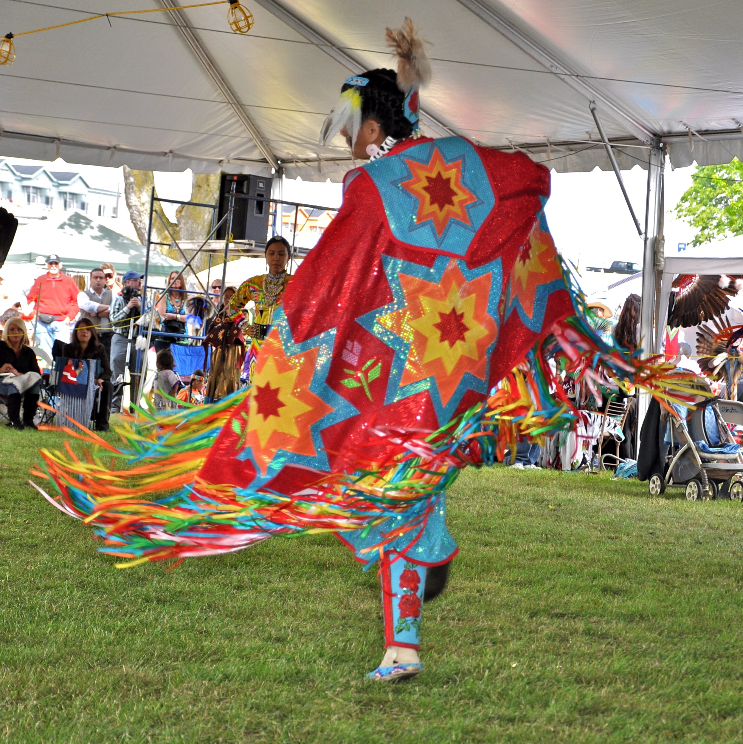 A Pow Wow dancer at a gathering of native Indian peoples in Portland, Oregon.